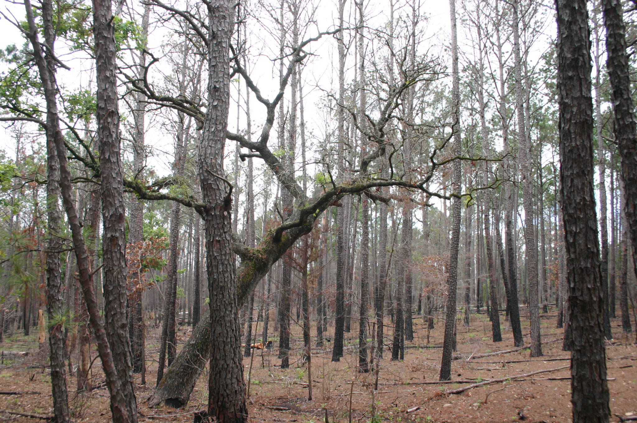 Contrasting tree types coexist in the "Lost Pines Forest" of Bastrop State Park, Texas. Pinus taeda trees have straight trunks, the leaning deciduous one is heavily branched.